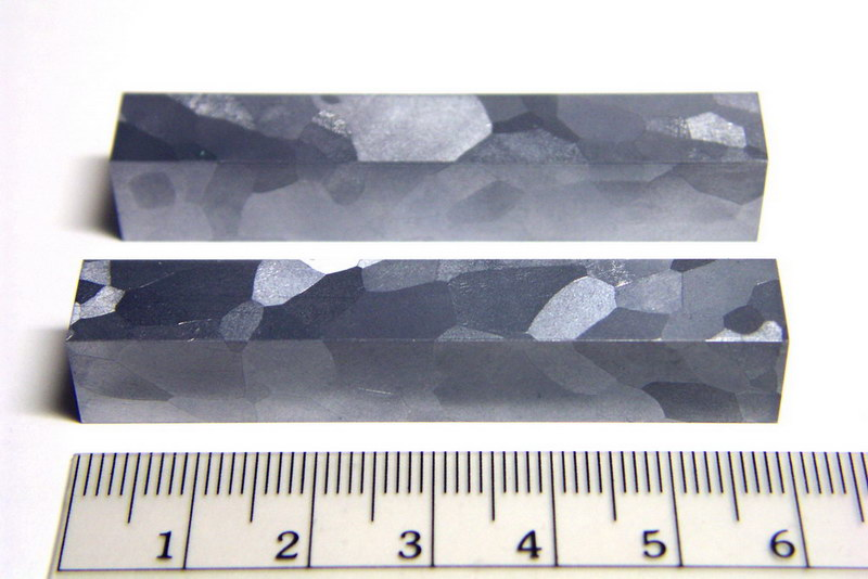 Vanadium square bar, 99.95% pure, ebeam remelted, crystalline, macro etched